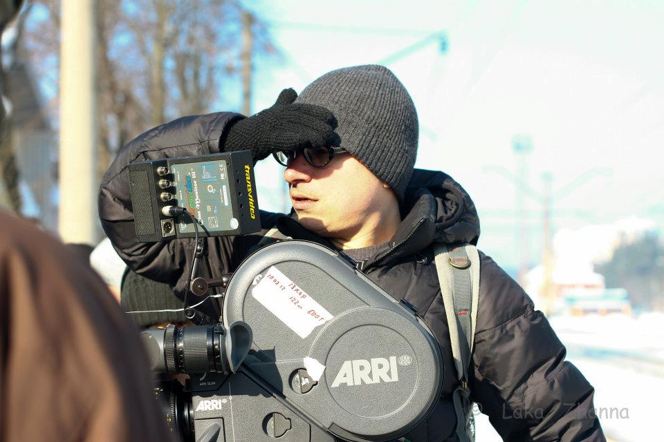 On the shoot of the movie «The Butterfly»